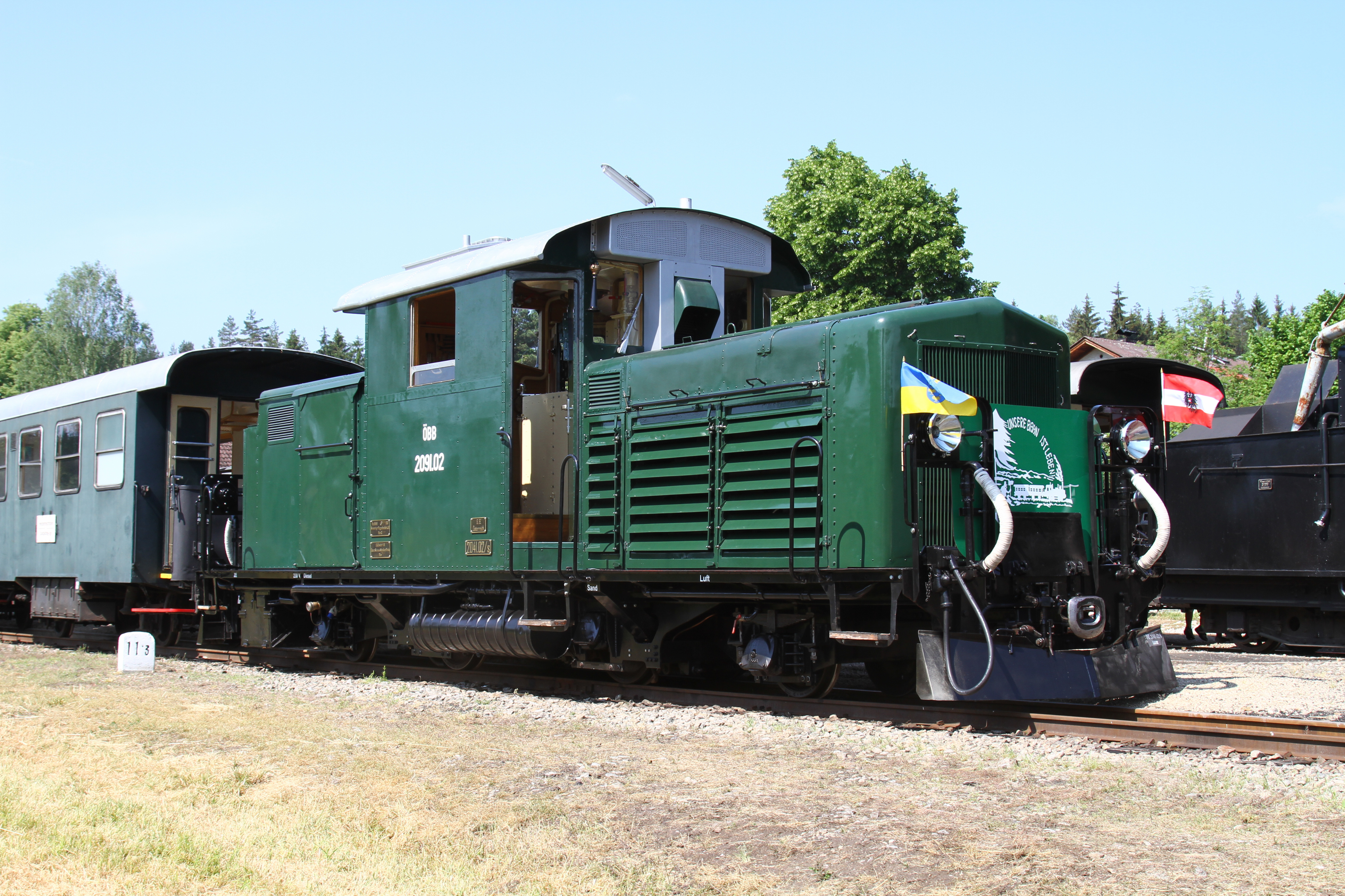 Preserved engine 2091.02 (ex BBÖ 2041/s.02) in a green livery at Alt Nagelberg station